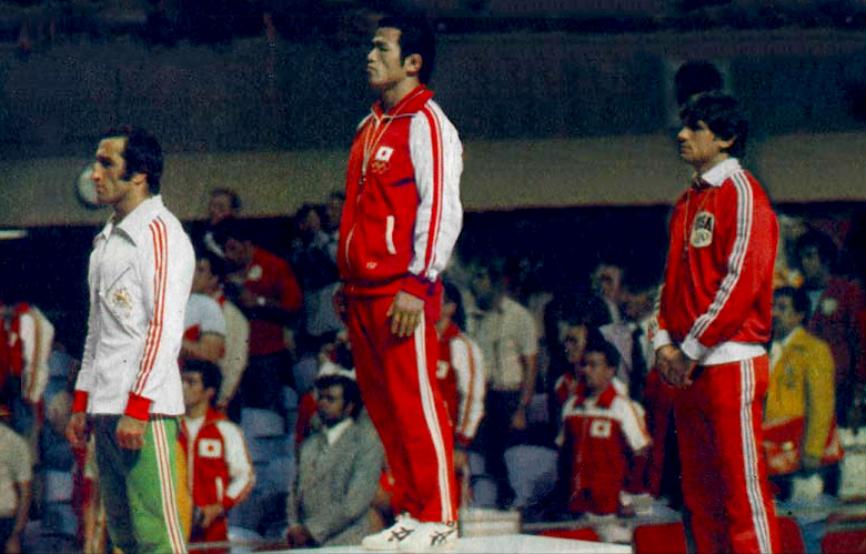 74 kg freestyle podium at the 1976 Olympics